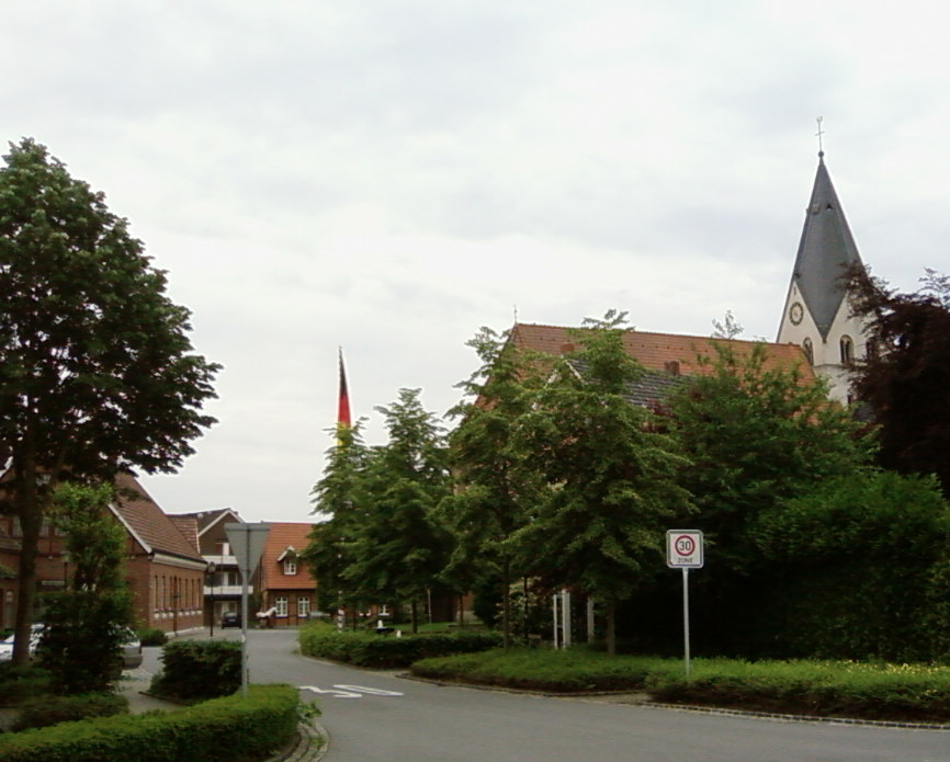 View of the village centre and of the parish church St. Lambertus